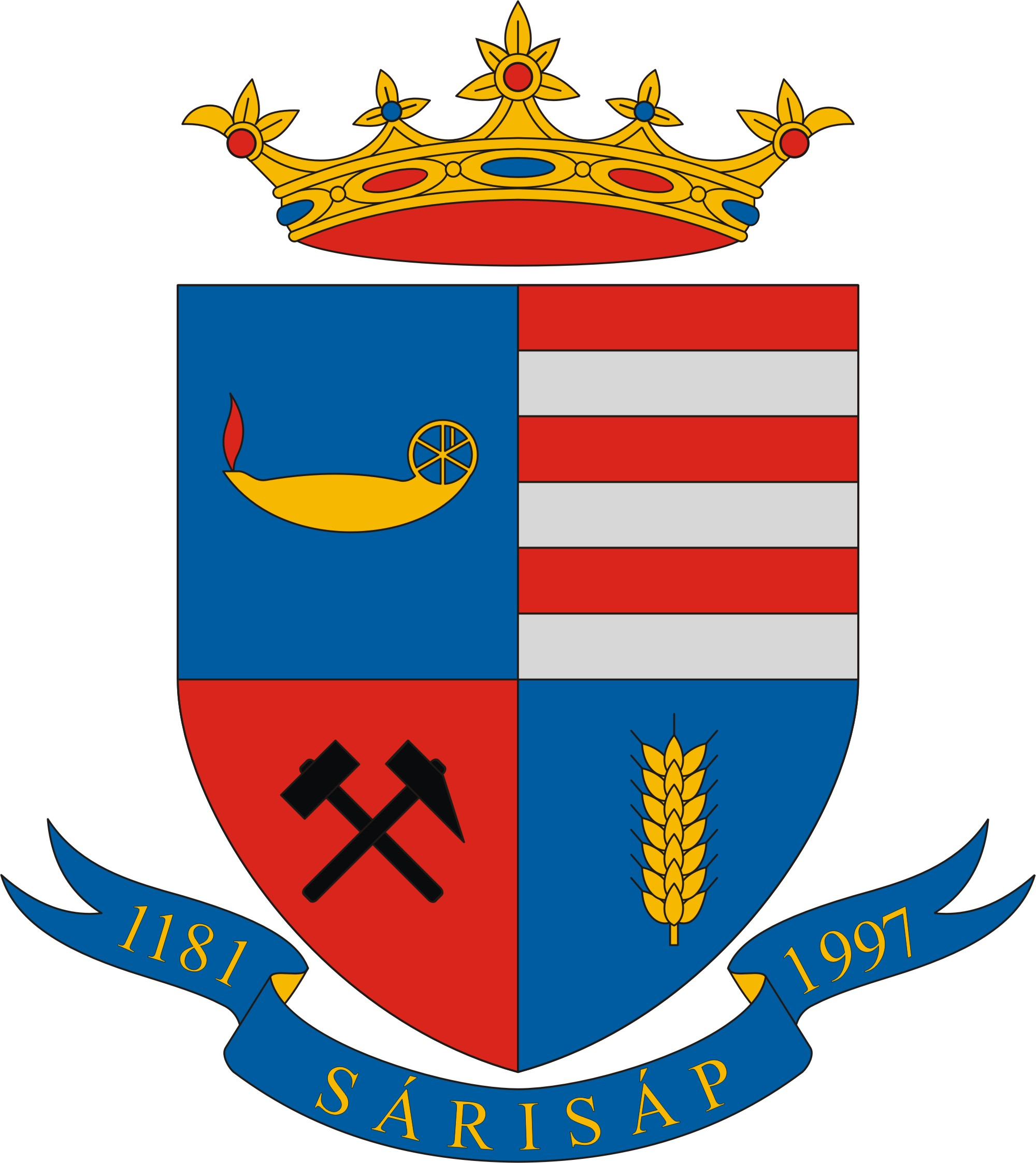 Coat of arms of Sárisáp, Hungary